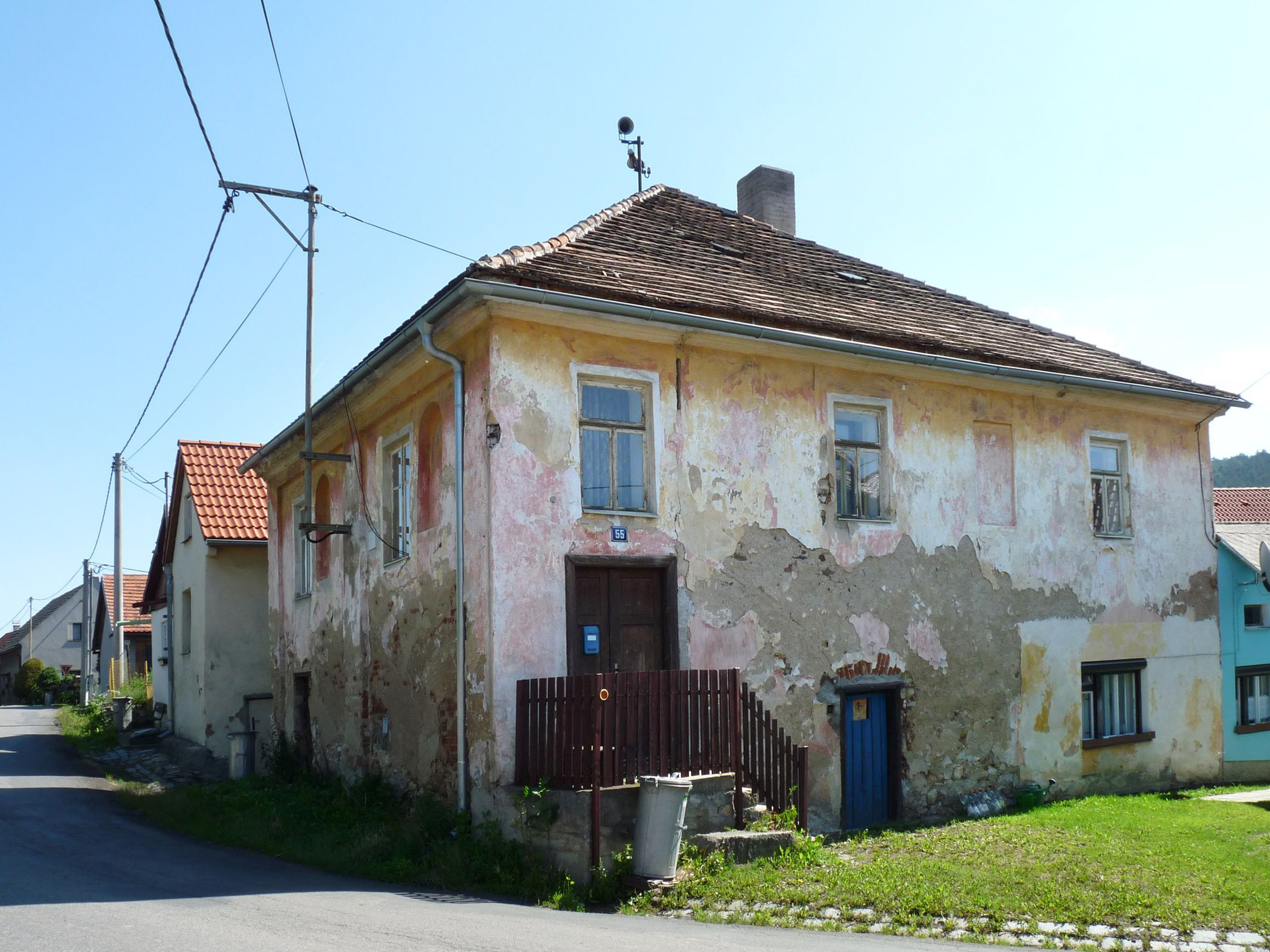 Former synagogue, house No 55, in the municipality of Podmokly, Klatovy District, Plzeň Region, Czech Republic.